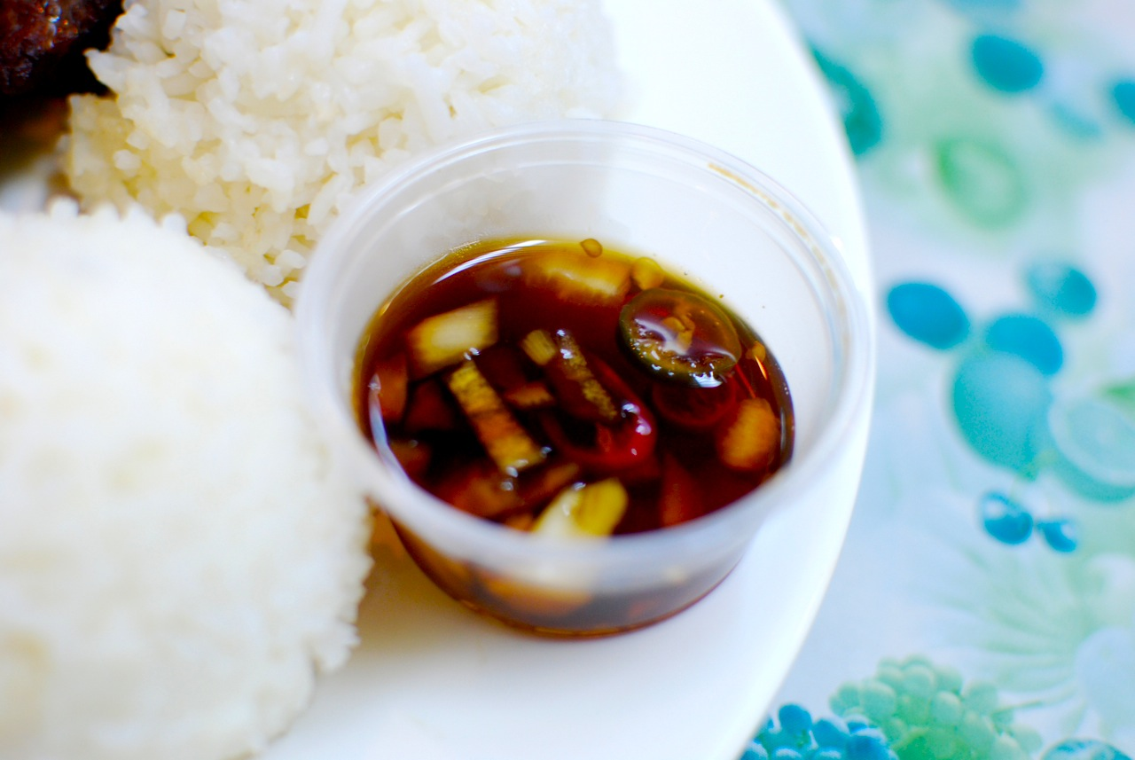 Fina'denne, pronounced (finá-denny), also called fina dene, is an all-purpose condiment used in Chamorro cuisine. Basic recipe calls for 1 part soy sauce to 1 part vinegar/lemon juice (some say 2 parts vinegar/lemon juice) and chopped onions, pepper optional. Example: 3 tbsp soy sauce 1/4 cup white vinegar or juice of 2 lemons 1/4 cup chopped green or white onions (or both!) 3 small red peppers, crushed Combine all ingredients and stir. It can be spooned over food or used for dipping.